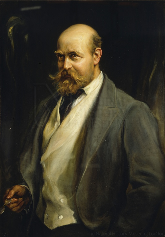 Lord Lionel Walter Rothschild (1868–1937), eccentric collector and naturalist who used his family fortune to amass a very large personal scientific collection, which became the Zoological Museum at Tring and included the Tunney Zaglossus specimen. Courtesy of the Natural History Museum, London.